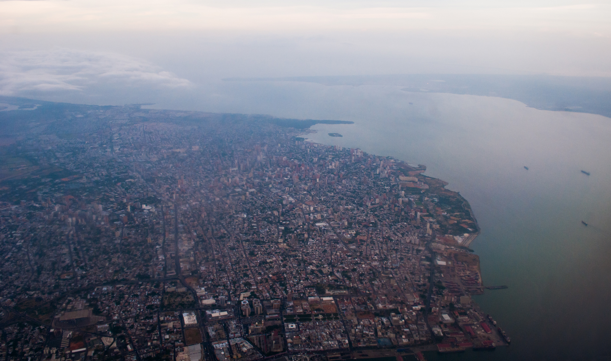 Aerial view of Macaraibo city